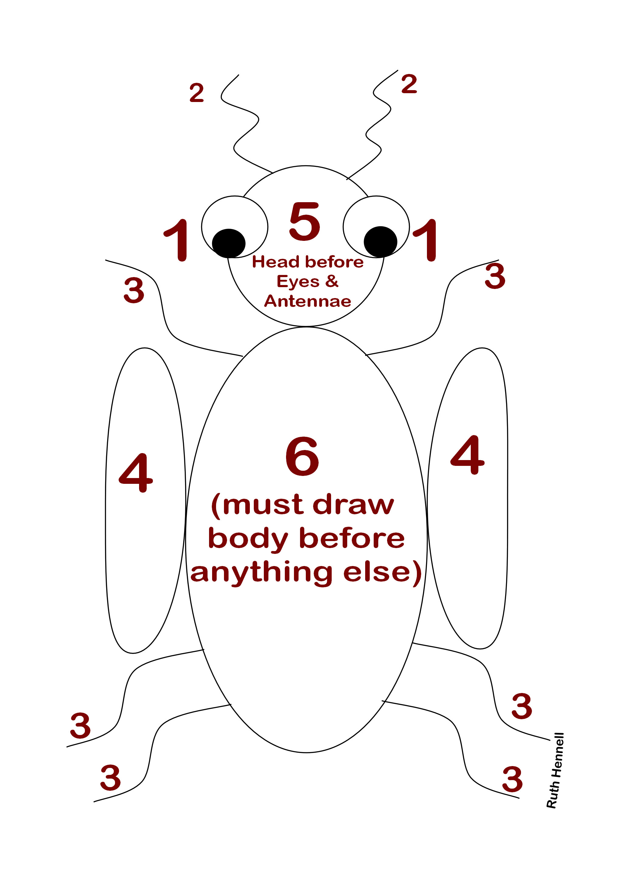 An image of a Beetle drawn for the Beetle Drive game.